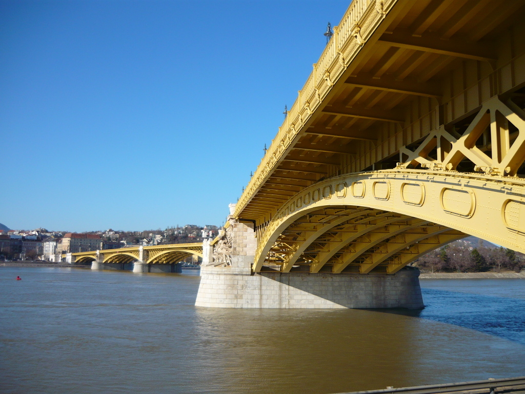 Margaret Bridge, Budapest